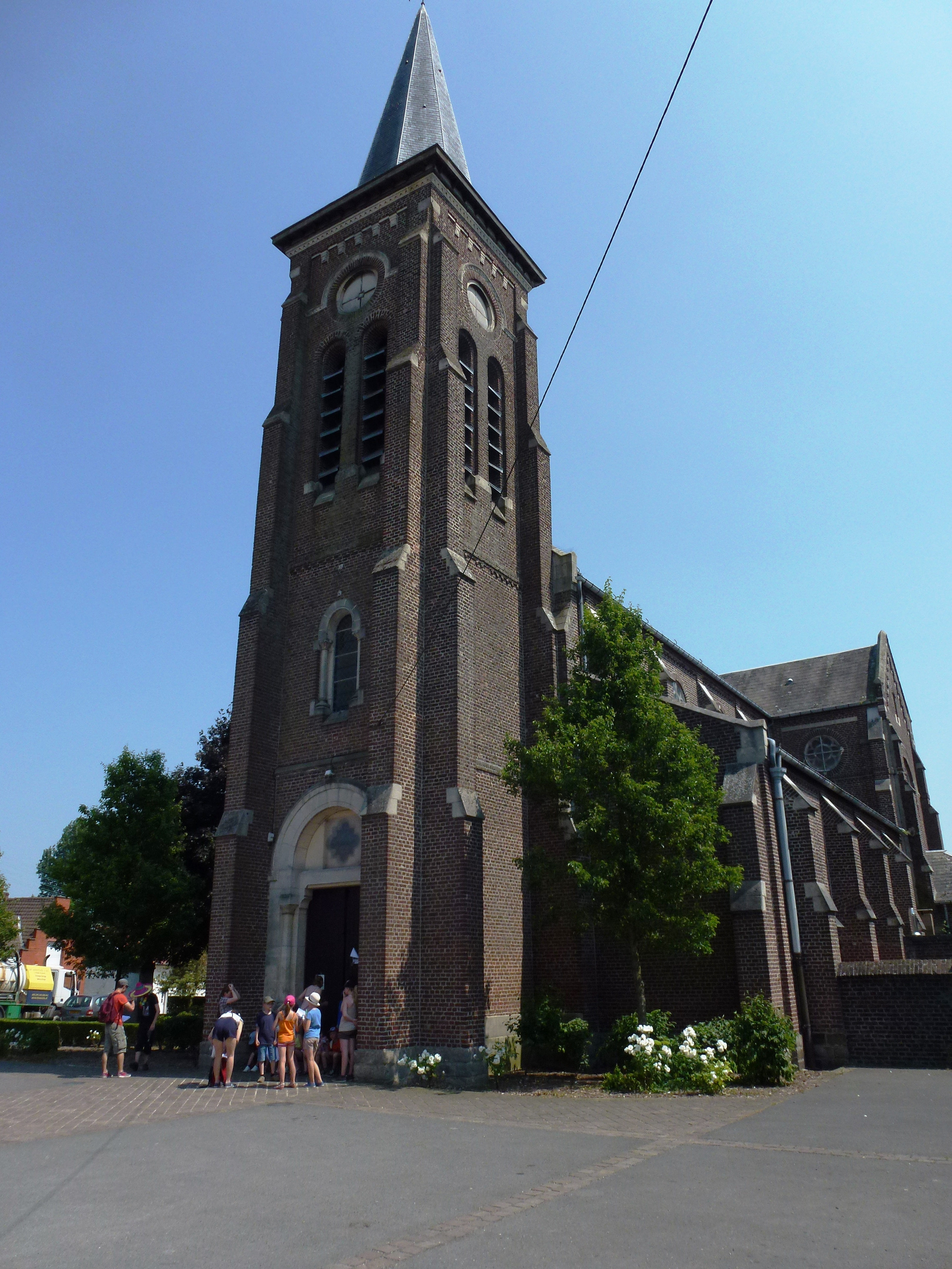 Moncheaux (Nord, Fr) L'église Saint-Waast